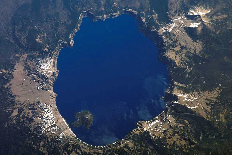 The raw satellite imagery shown in these images was obtained from NASA and/or the US Geological Survey. Post-processing and production by